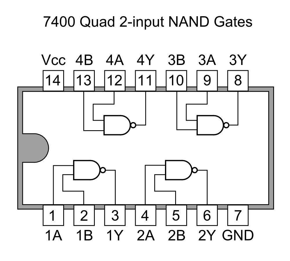 TTL pin asignment of 7400 Quad 2-input NAND Gates